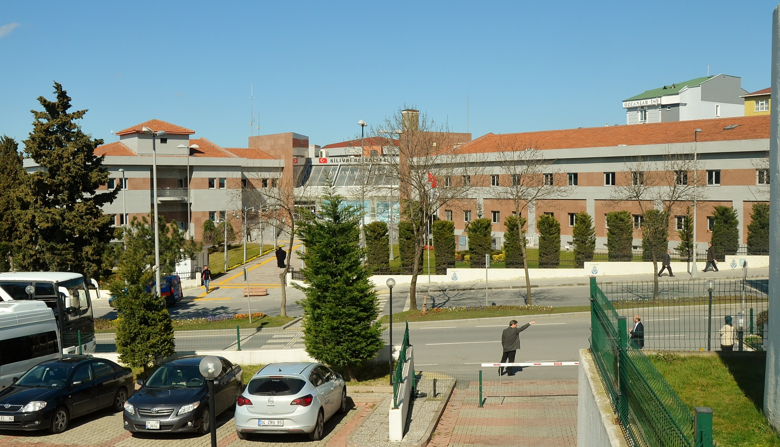 Silivri Muncipality Building, Istanbul Province, Turkey